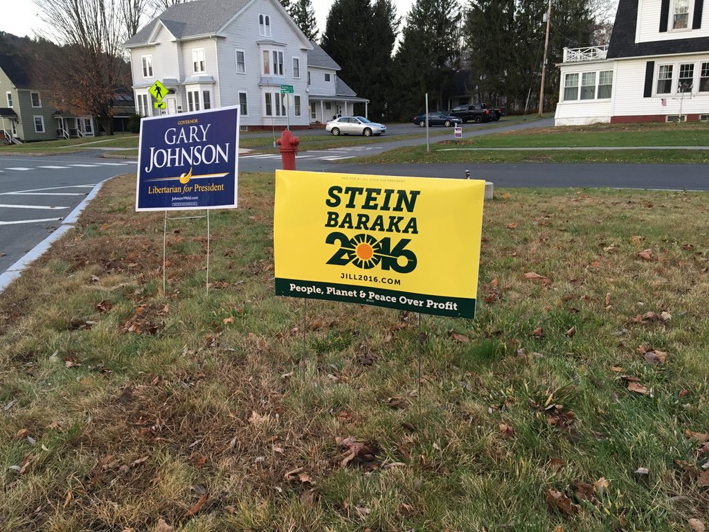 Political campaign signs of Jill Stein and Gary Johnson during the 2016 US presidential election